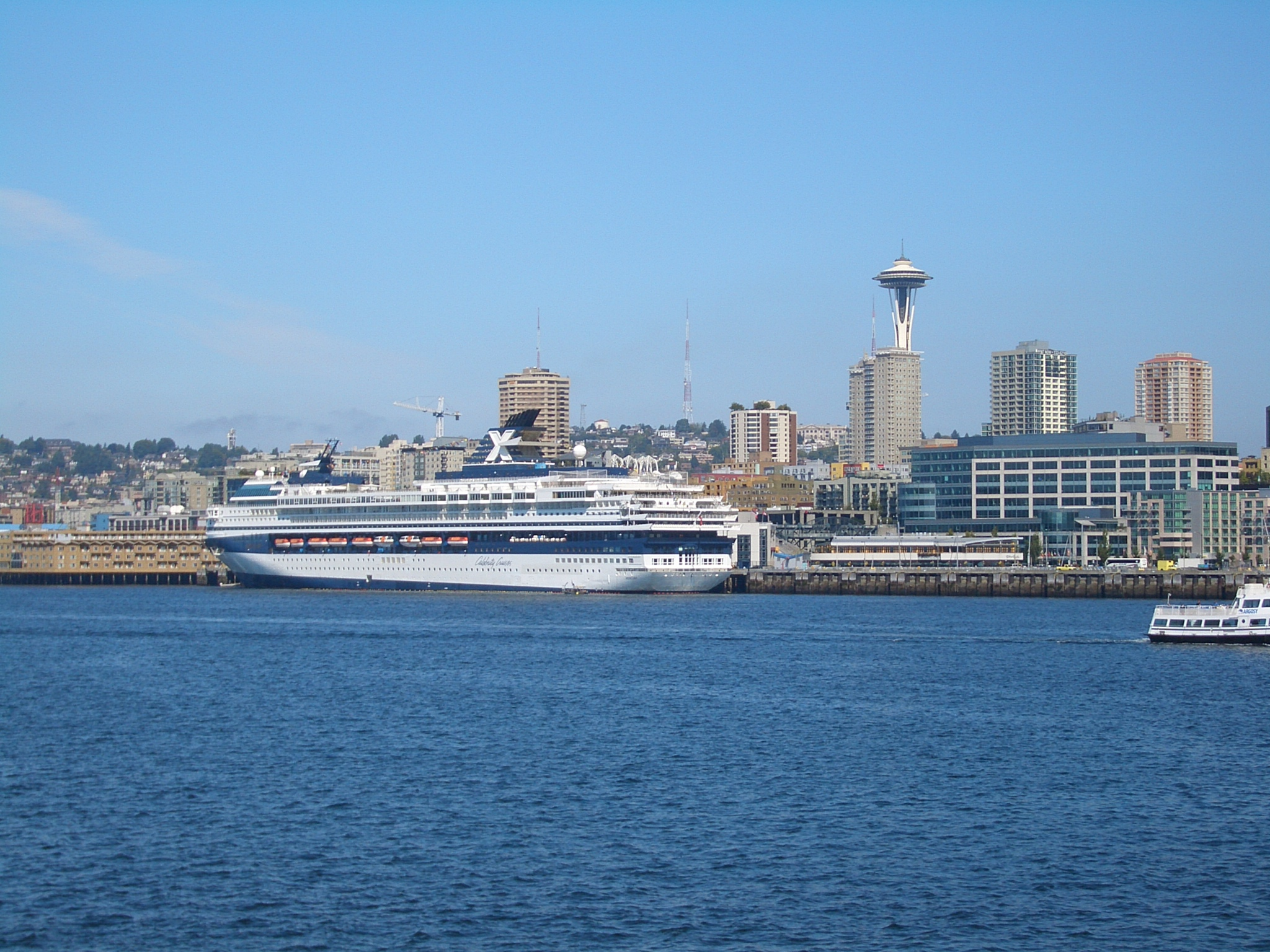 Seattle Waterfront, with a "Celebrity Cruises" liner in port, seen from a WSF ferry.